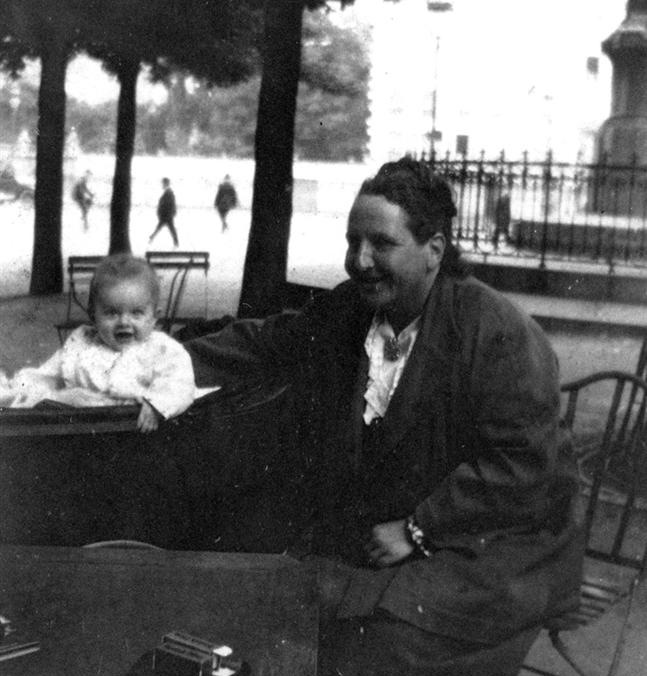 Image of Gertrude Stein and Jack Hemingway in Paris, 1924.